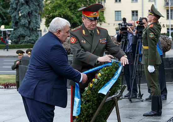 Yuri Khatchaturov laying a wreath with Andrei Ravkov.